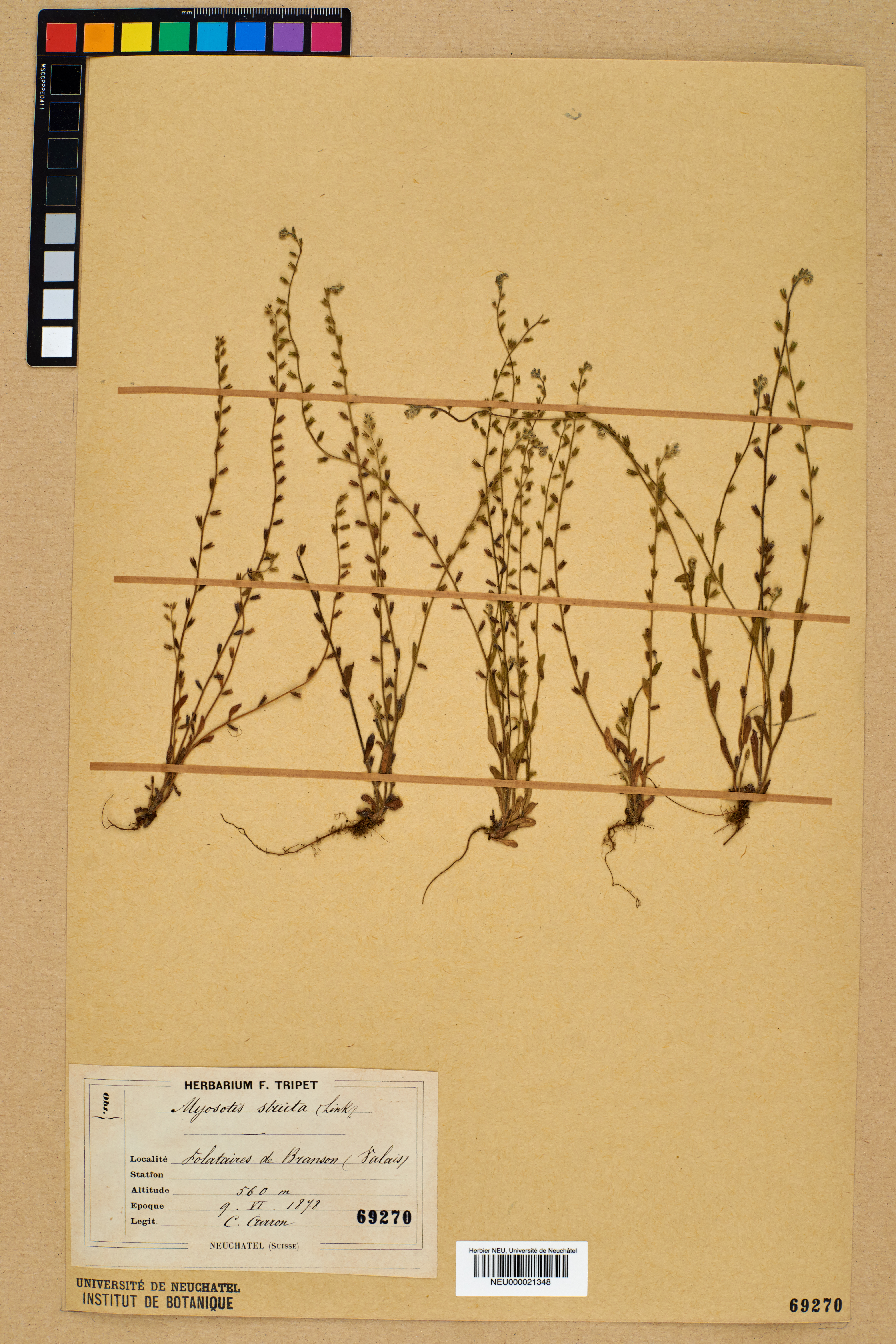 Dried pressed specimen of Myosotis stricta